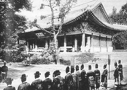 Keigakuin(Temple of Confucius)